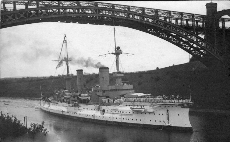 Photo of the German armored cruiser SMS Fürst Bismarck passing under the Levensau High Bridge after returning from the East Asia Squadron on 13 June 1909